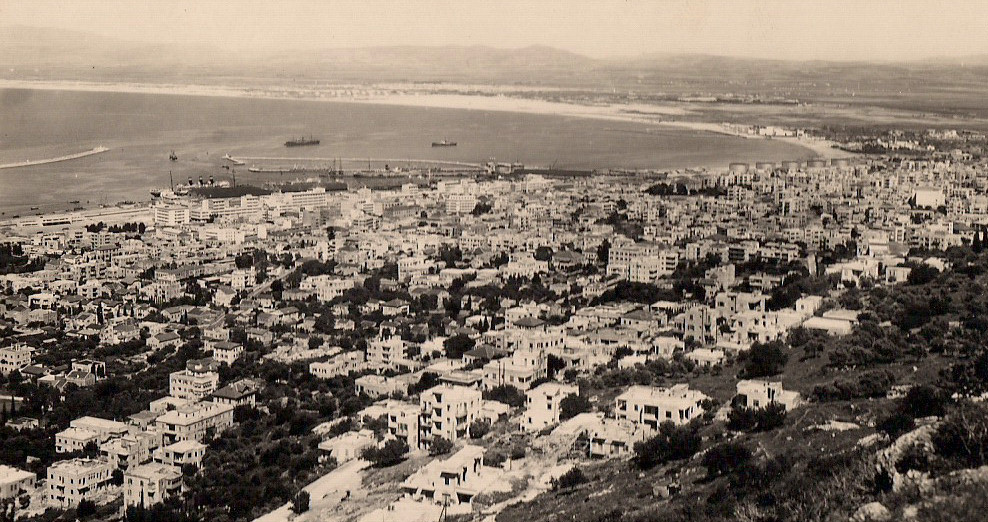 Haifa 1930, Cities in Israel